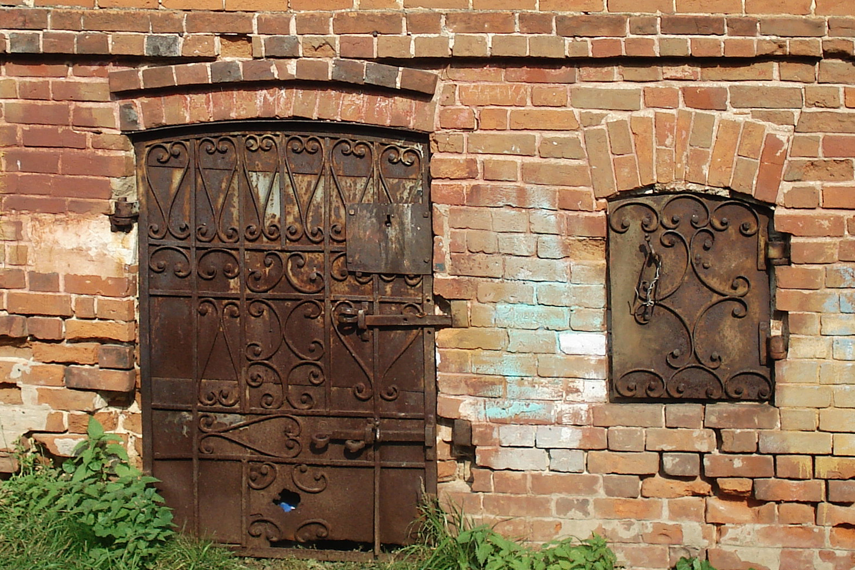 The Antiquities in the Village of Visokovo. Nezhegorodskaya oblast. Russia.